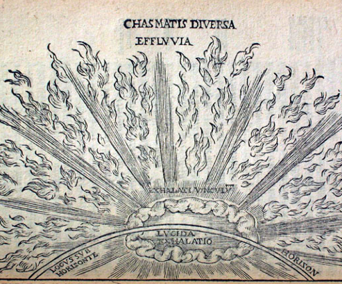 Illustration of an aurora by Cornelius Gemma, from his 1575 book on the nova of 1572